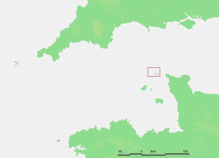 Channel Islands - Burhoe.PNG (Burhou Island)